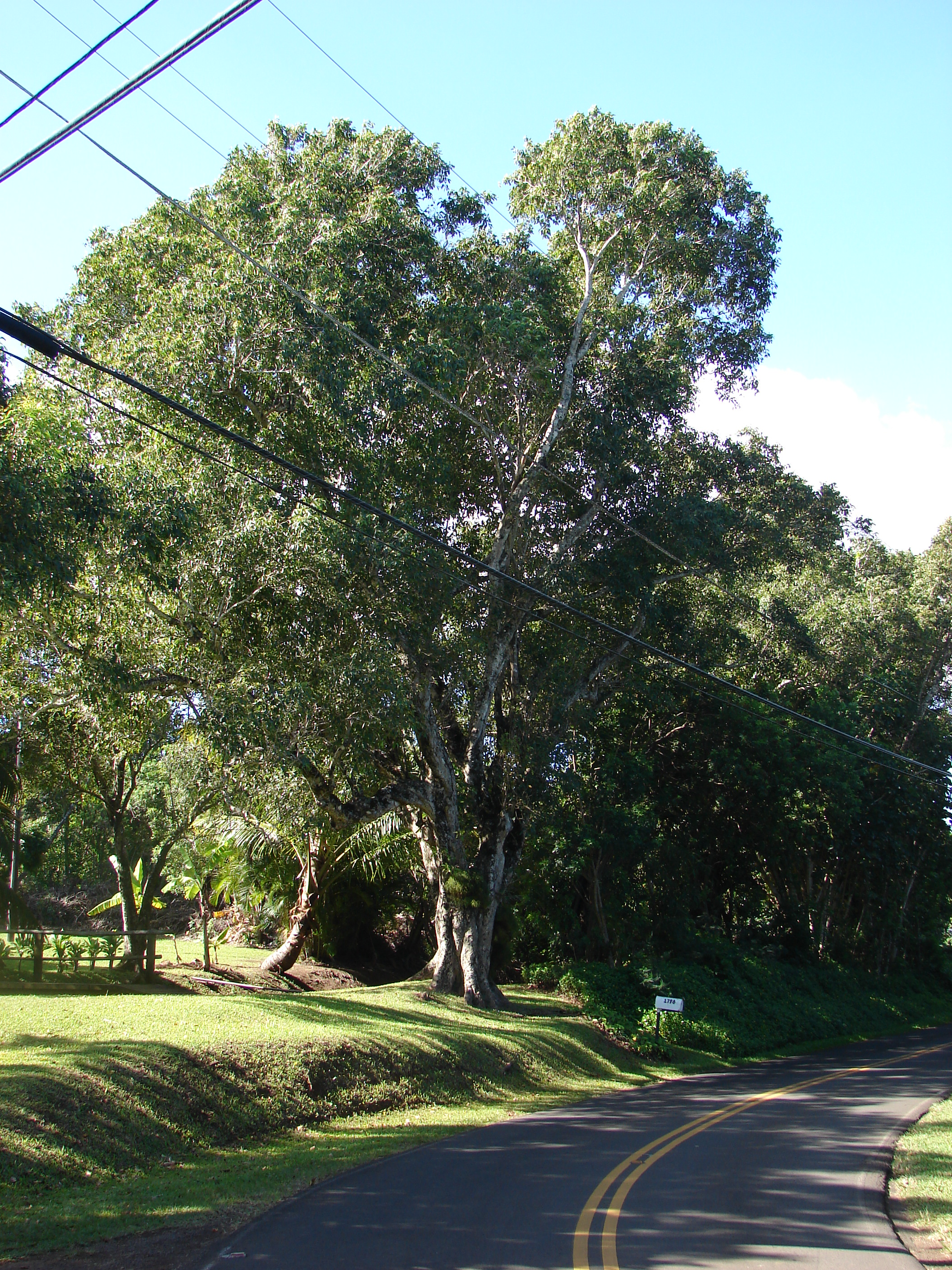 Syzygium cumini (habit). Location: Maui, West Kuiaha Rd Haiku